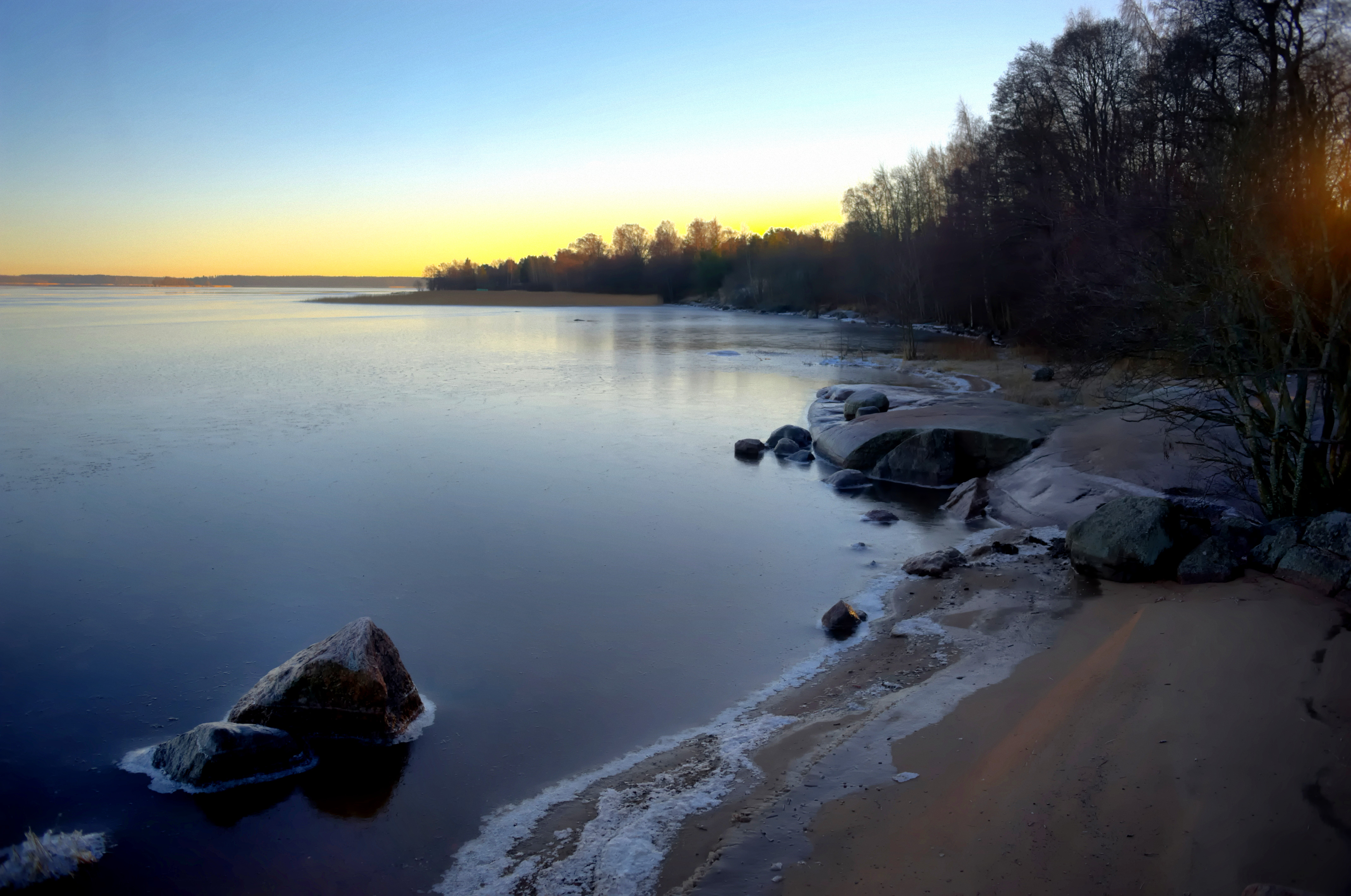 Uuras Beach 28.12.2015